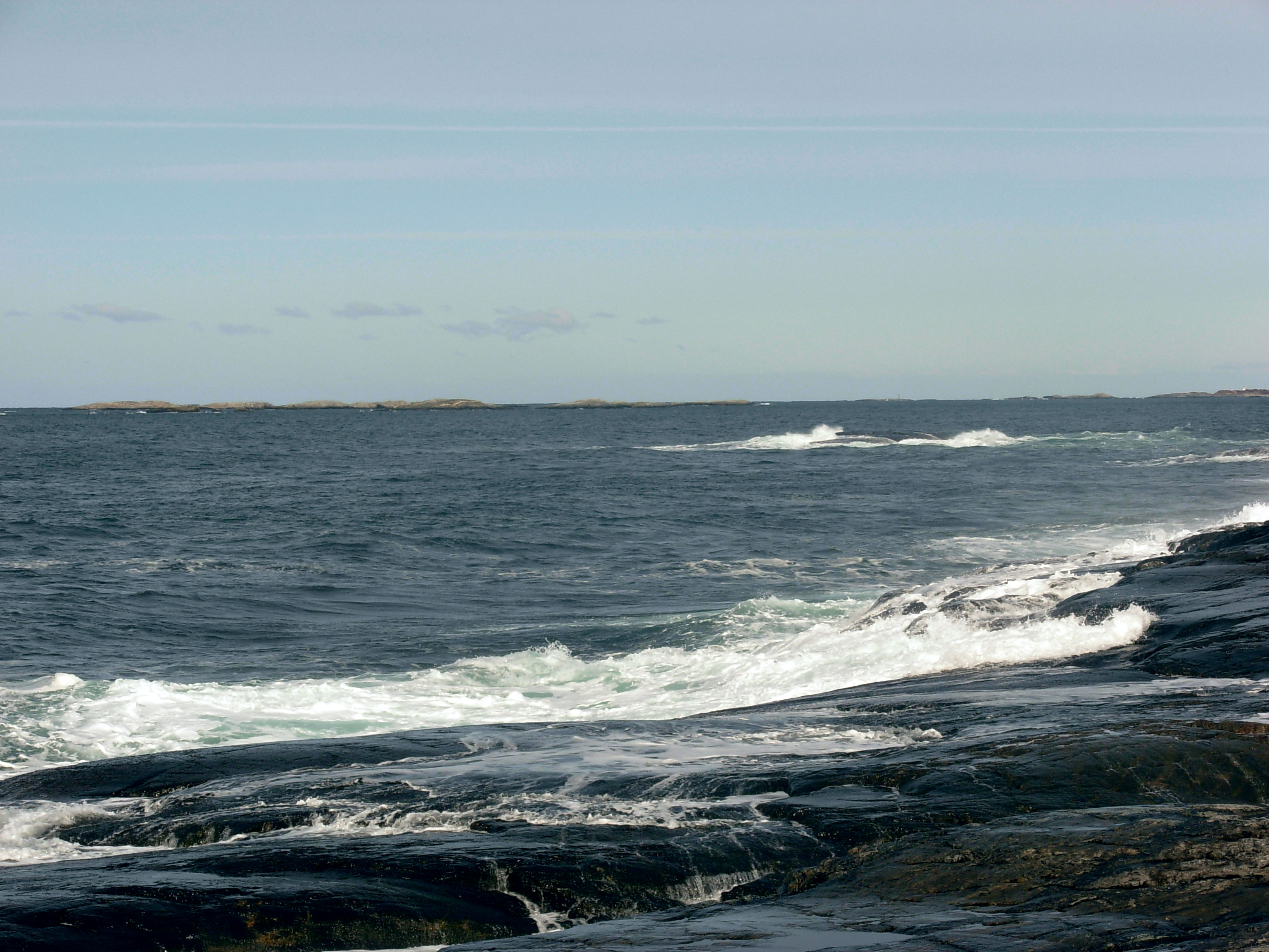 Shore of Norwegian sea